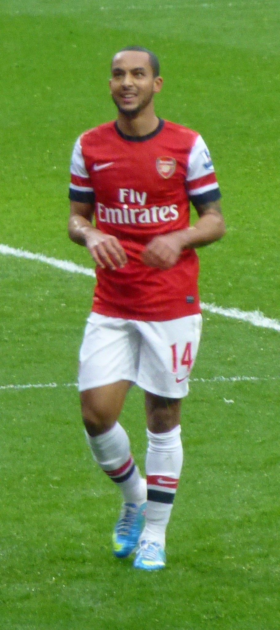 Theo Walcott heads over to celebrate a goal with his Arsenal team-mates during a match against Norwich City.